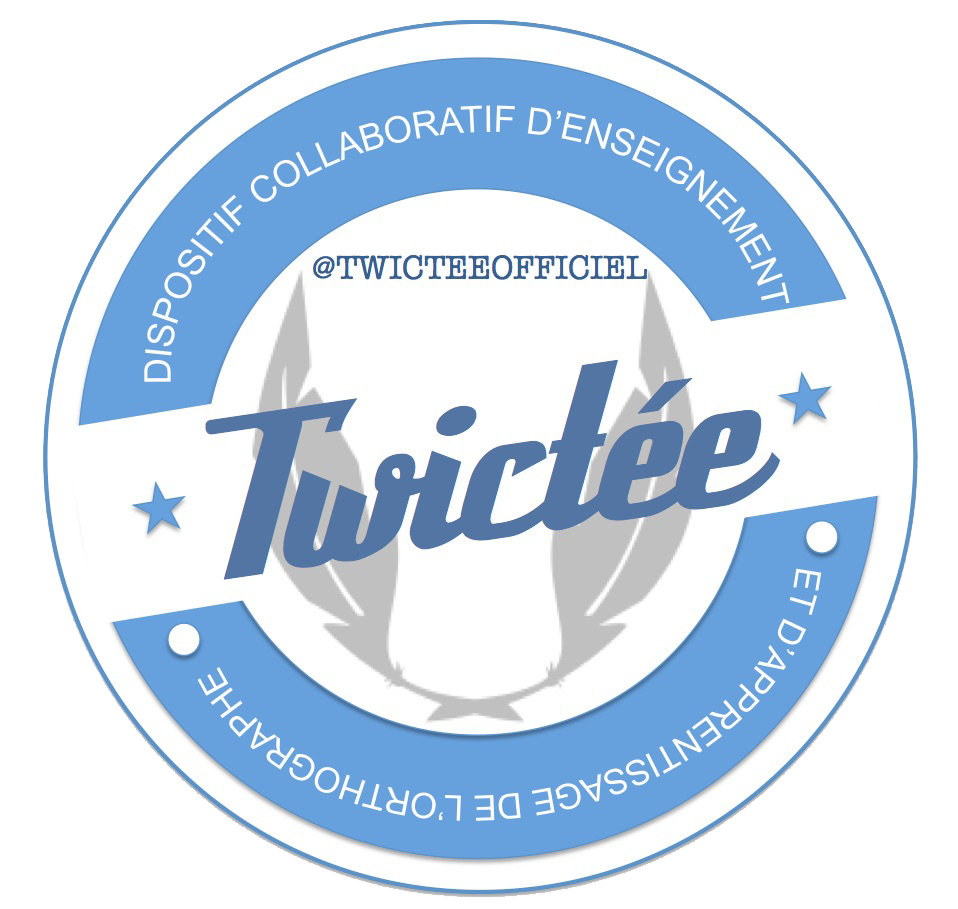 The logo created by Fabien Twictée HOBART which unites the community of participants of # Twictée device may be used under the CC BY-SA license